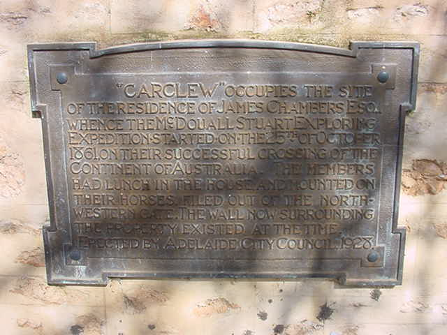 Plaque commemorating the starting point of John McDouall Stuart's 1861-62 south-north crossing of Australia mounted on the wall of the home Carclew, Montefiore Hill, Adelaide, 28 May 1928